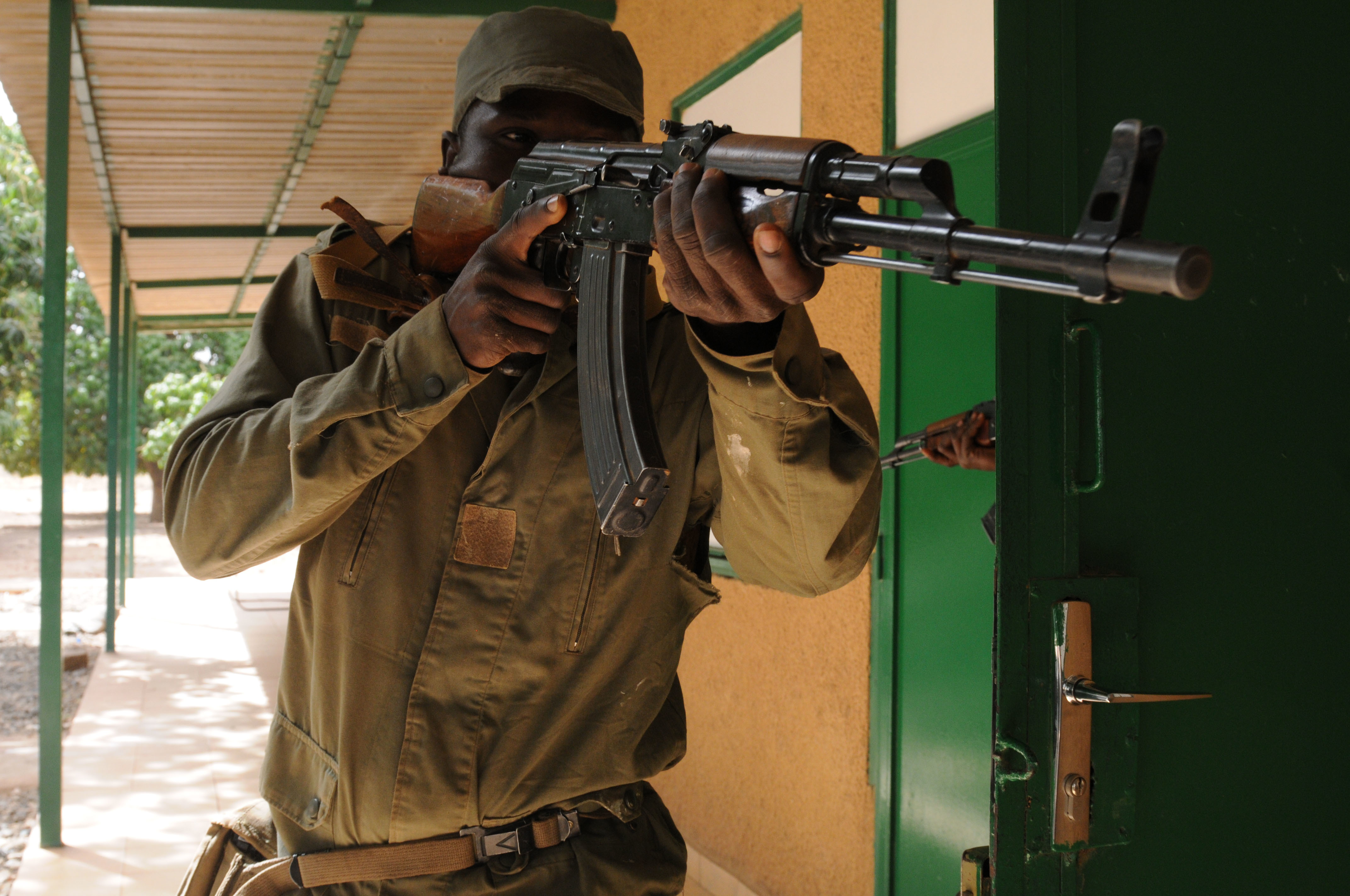 A Burkina Faso soldier exits a room after a close quarter combat drill March 8, 2017 at Camp Zagre, Burkina Faso. This military interoperability results in improved security and stability for the region and the continent. (U.S. Army photo by Spc. Britany Slessman 3rd Special Forces Group (Airborne) Multimedia Illustrator/released) Unit: U.S. Africa Command DVIDS Tags: Africa; special operations; special forces; Burkina Faso; Flintlock; Flintlock17